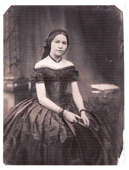 Photograph of Eleonora von Ehrenberg (1832-1912), Czech opera soprano, from 1850s/1860s